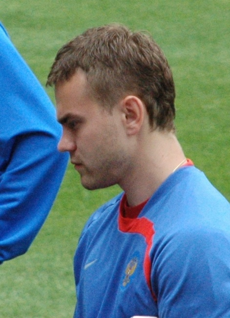 Igor Akinfeev at Euro 2008